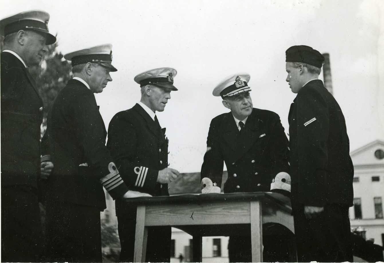 Sea cadet being tested during the central competitions of the Swedish Sea Cadet Corps in 1944. The test is led by the Chief of the Navy, Vice Admiral Fabian Tamm, who is the second from the left.